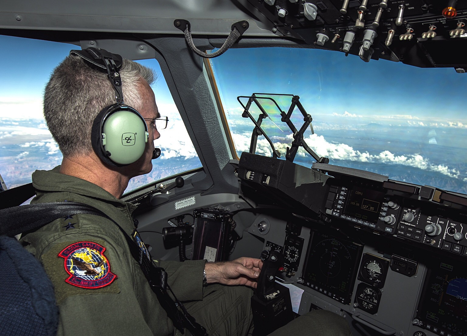 Commander of the United States Transportation Command General General Paul J. Selva flying Boeing C-17 Globemaster III, P-223, during mid-air flight on the inaugural flight of the final U.S. Air Force C-17 Sept. 12, 2013.